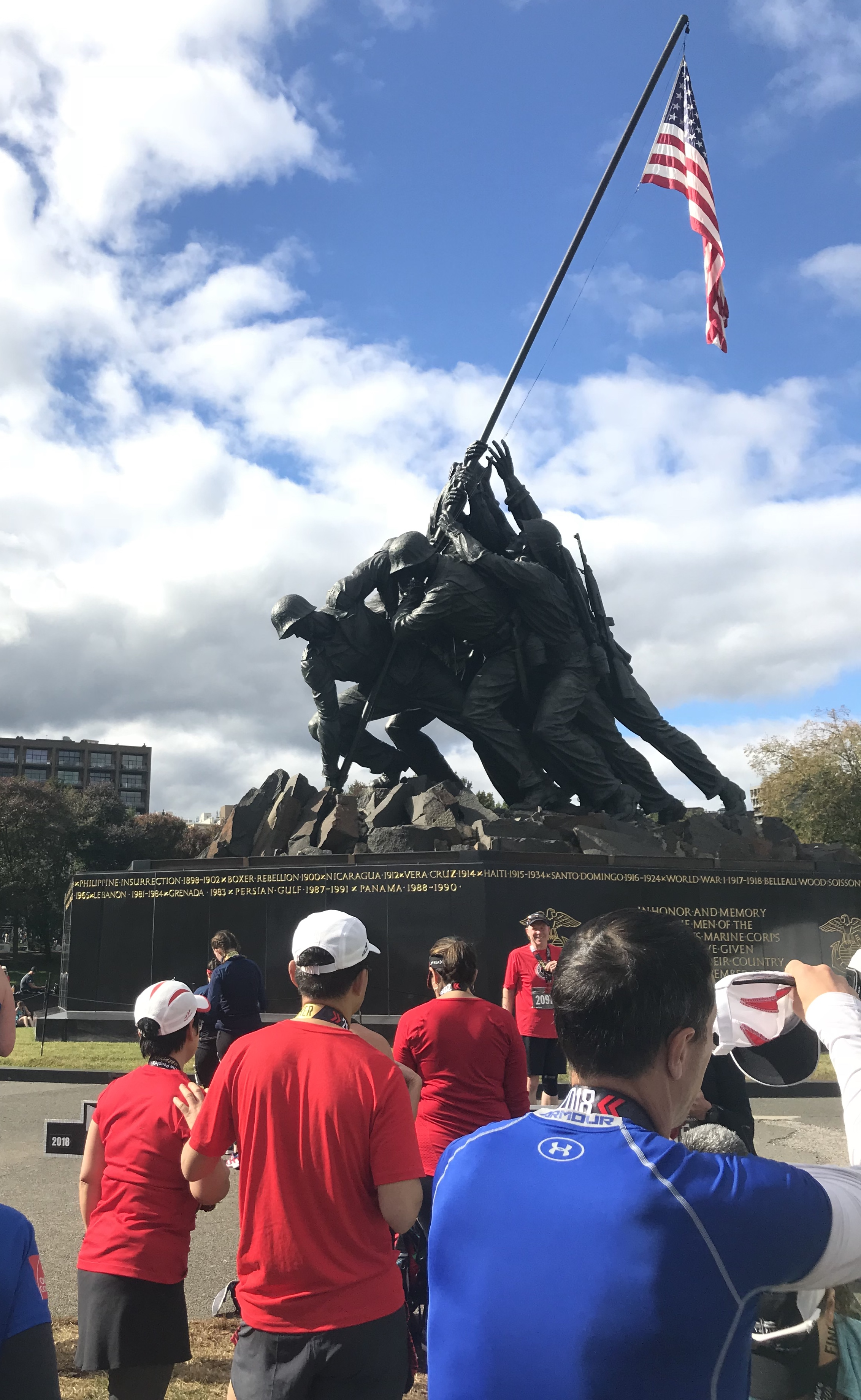 Picture of people getting their picture taken in front of Marine Corps War Memorial after the 2018 Marine Corp Marathon